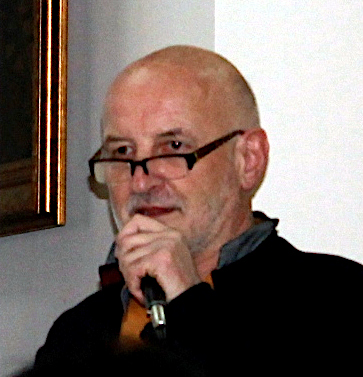 Marek Chołoniewski in Kyiv, 2017